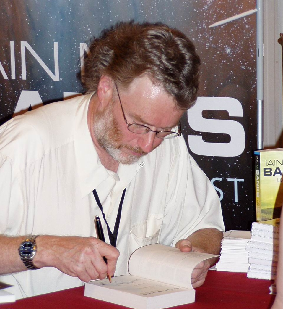 Ian M. Banks at Worldcon 2005 in Glasgow, August 2005.